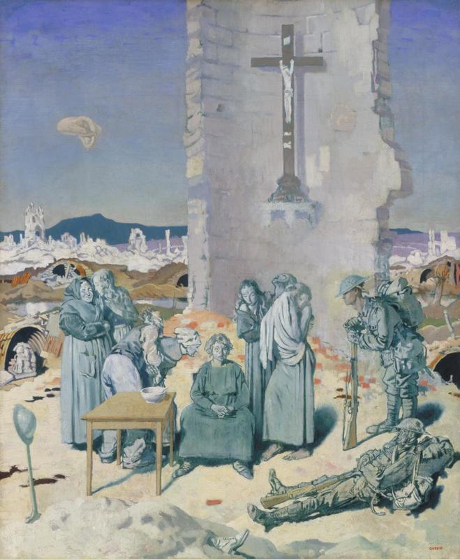 The Mad Woman of Douai image: A scene set in the ruins of a church. The East-facing fall of the apse is all that remains, and the crucifix still intact. A group of peasants stand around a woman sitting on a chair next to a table. She has an expression of horror frozen on her face and her hands clasped tightly in her lap. Two of the peasants lean close to her, while another pair stand behind with their heads together. To the right three others stand in an attitude of sorrow. A soldier stands leaning on his rifle beyond them. The decayed corpse of a soldier lies on the ground in front, his pose mirroring that of the soldier standing above. In the left foreground there is a grave marked with a helmet, and the boot of the dead soldier protrouding from the end. The devastated remains of Douai lie beyond this scene, and the dark shadows of mountains in the distance.